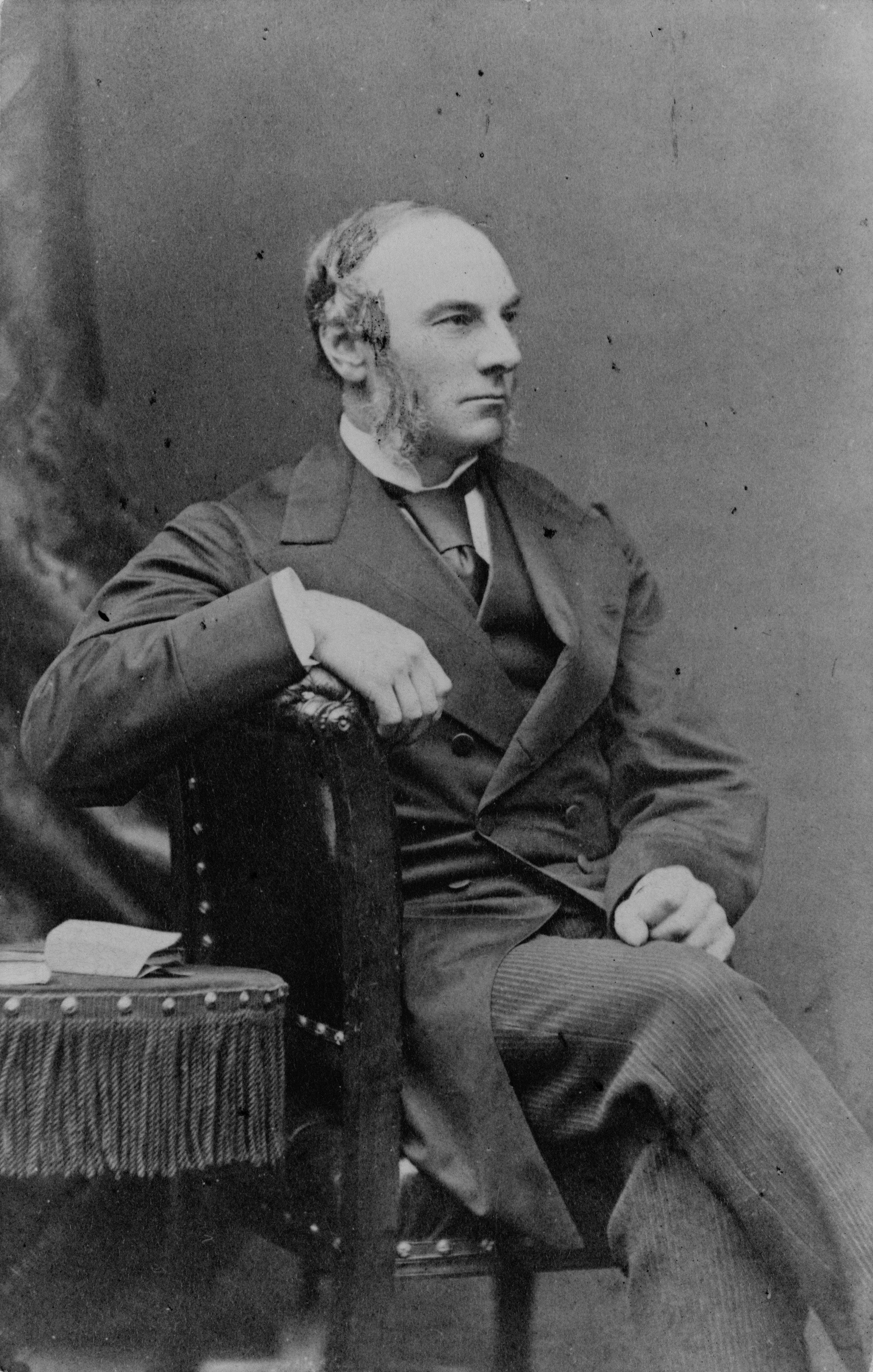 Photograph of Sir Wyndham Spencer Portal, 1st Baronet (source incorrectly identifies him as a Baron, there was no Portal barony until 1935.)